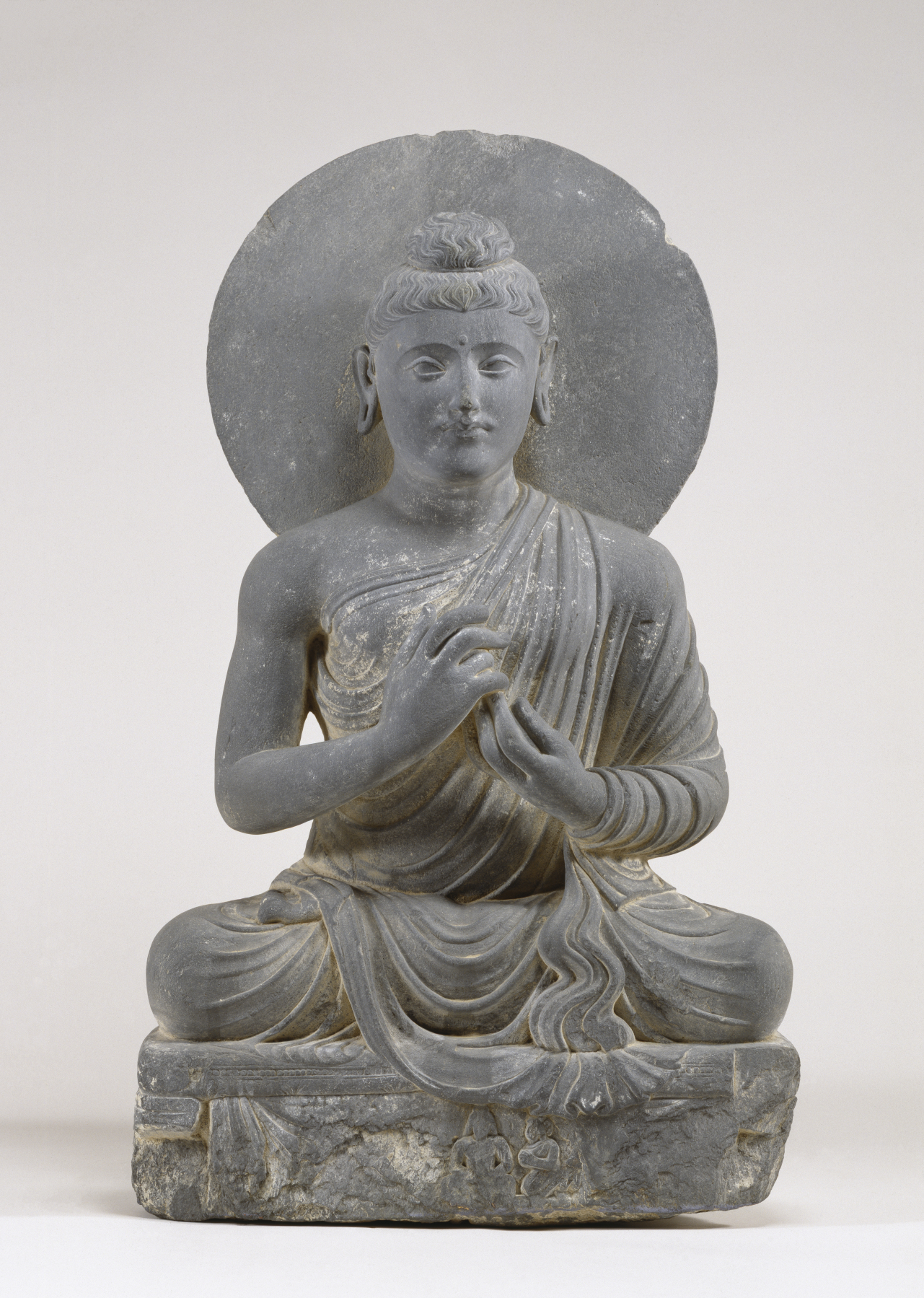 The Buddha's hand gesture, or mudra, is called dharma-chakra. It reveals the Buddha to be preaching a sermon in which he explains the four Noble Truths of human existence and the path to enlightenment. Many sculptures of this type were created in the Gandharan region of present-day Pakistan. This region had fallen under the control of Alexander the Great during his conquest in the 4th century BC, and the sculptors there were greatly influenced by Greco-Roman artistic traditions.